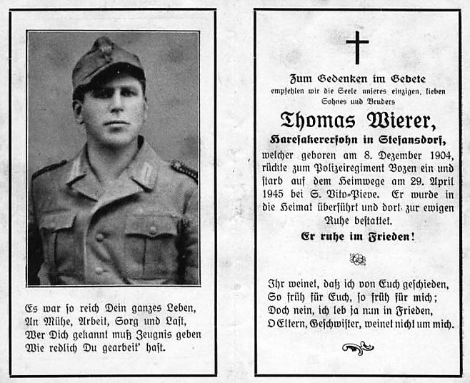 In memoriam card for Thomas Wierer 1904-1945, member of the Polizeiregiment Bozen